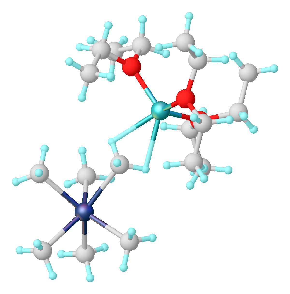 Structure of [Li(OEt2)3]+[NbMe6]